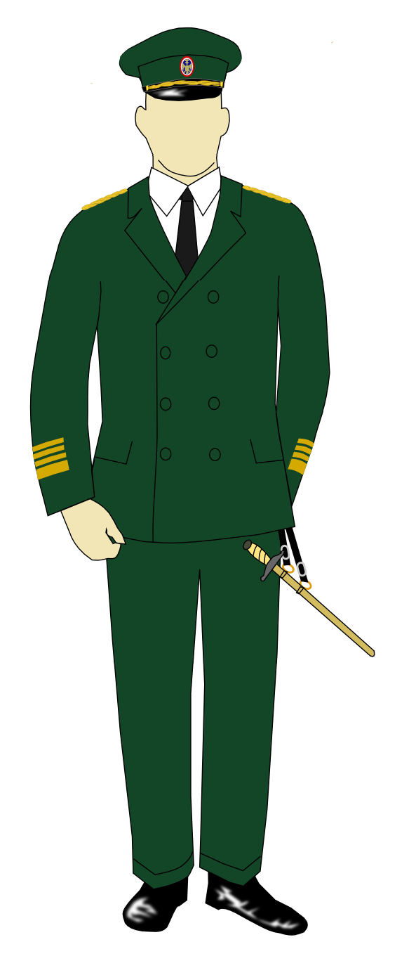 Financial Controller 1936 with the high Official rank of V.th Class. Based on legal prescription in official journal: Službeni list kraljevske banske uprave Dravske banovine, 101-VII/1936: Pravilnik o službeni obleki in orožju uslužbencev finančne kontrole in dajanju državne podpore za nabavo službene obleke.